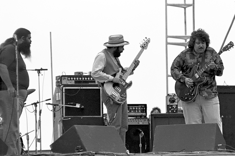 Canned Heat. Woodstock Reunion, 9/7/79. Parr Meadows, Ridge, NY